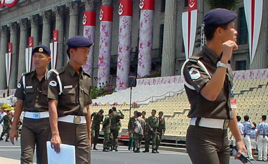 Singapore Armed Forces Provost Unit members providing security coverage at the National Day Parade 2000 held at the Padang, Singapore.